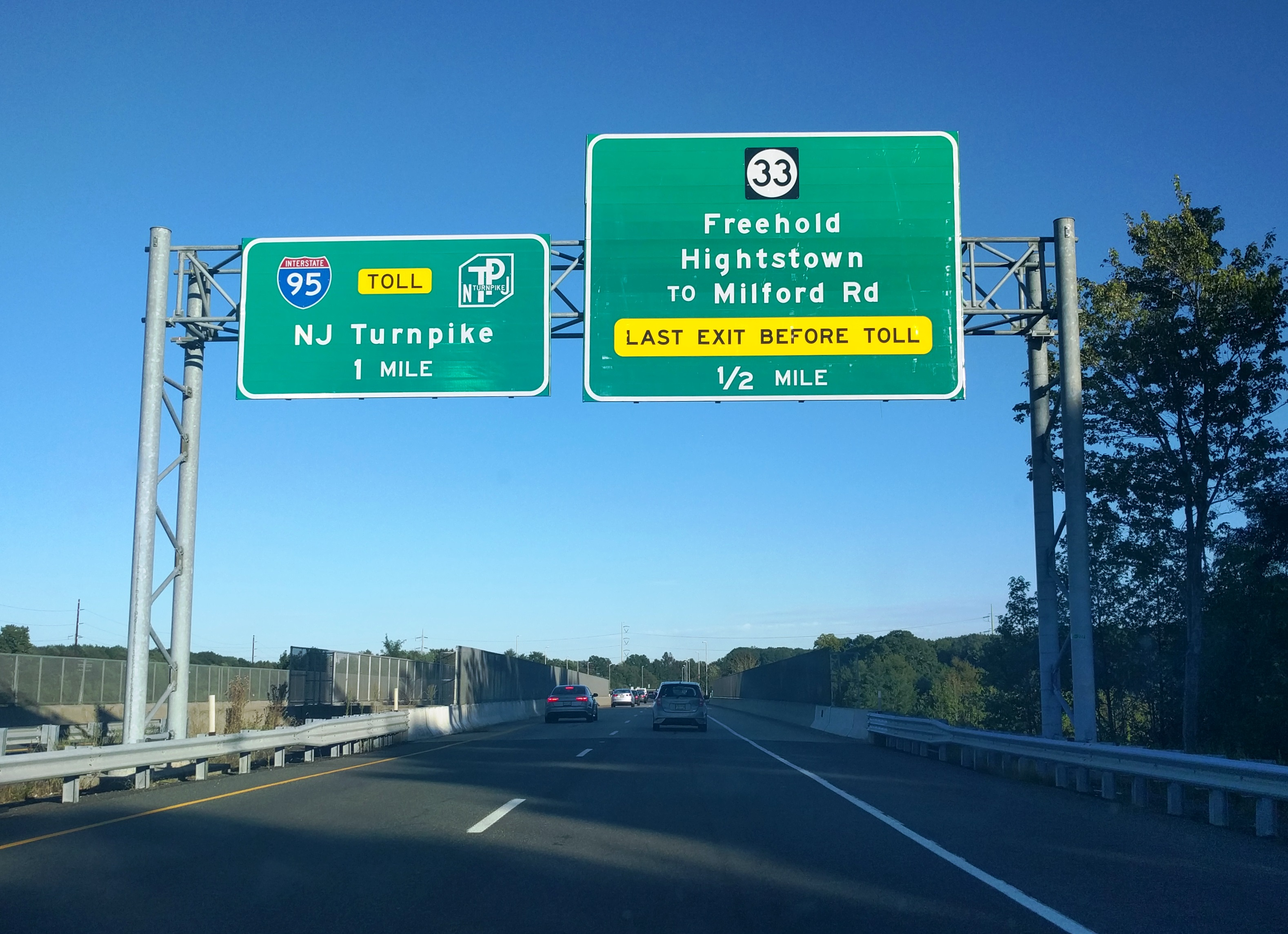 Photo of the 1⁄2-mile (0.80 km) advance sign for the New Jersey Turnpike/Interstate 95 and New Jersey Route 33 along eastbound New Jersey Route 133 in East Windsor Township, New Jersey.